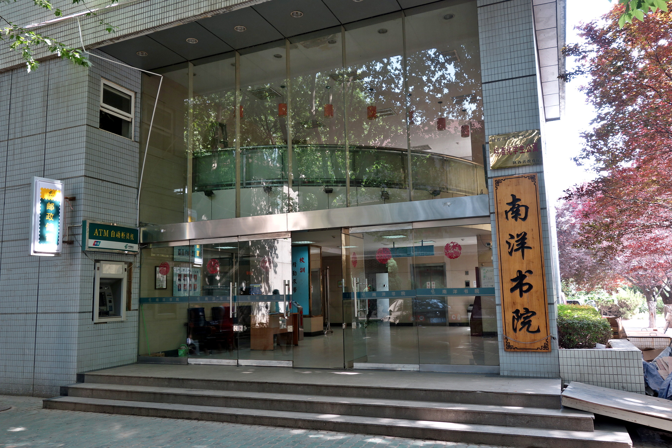 East 9 Dorm Building ("东 9" 宿舍楼) of Xi'an Jiaotong University, which belongs to the Nanyang College ("南洋书院"). 中文（香港）: 西安交通大學「東 9」宿舍樓，屬於「南洋書院」。